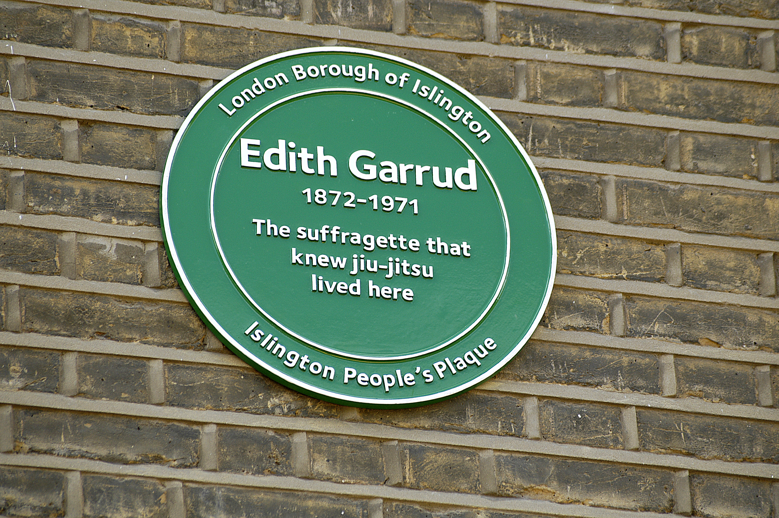 Thanks to Islington Heritage Services for the photo. More on Garrud's life and role in the suffrage movement here